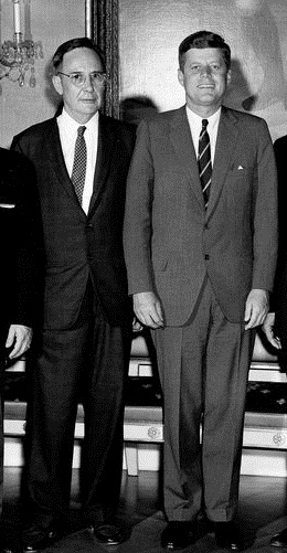 Tom V. Moorehead congressman of Ohio with JFK at Blue Room of White House May 25, 1961.